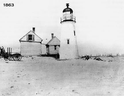 This is a copy of a photograph from 1863 - Cape Henlopen Beacon